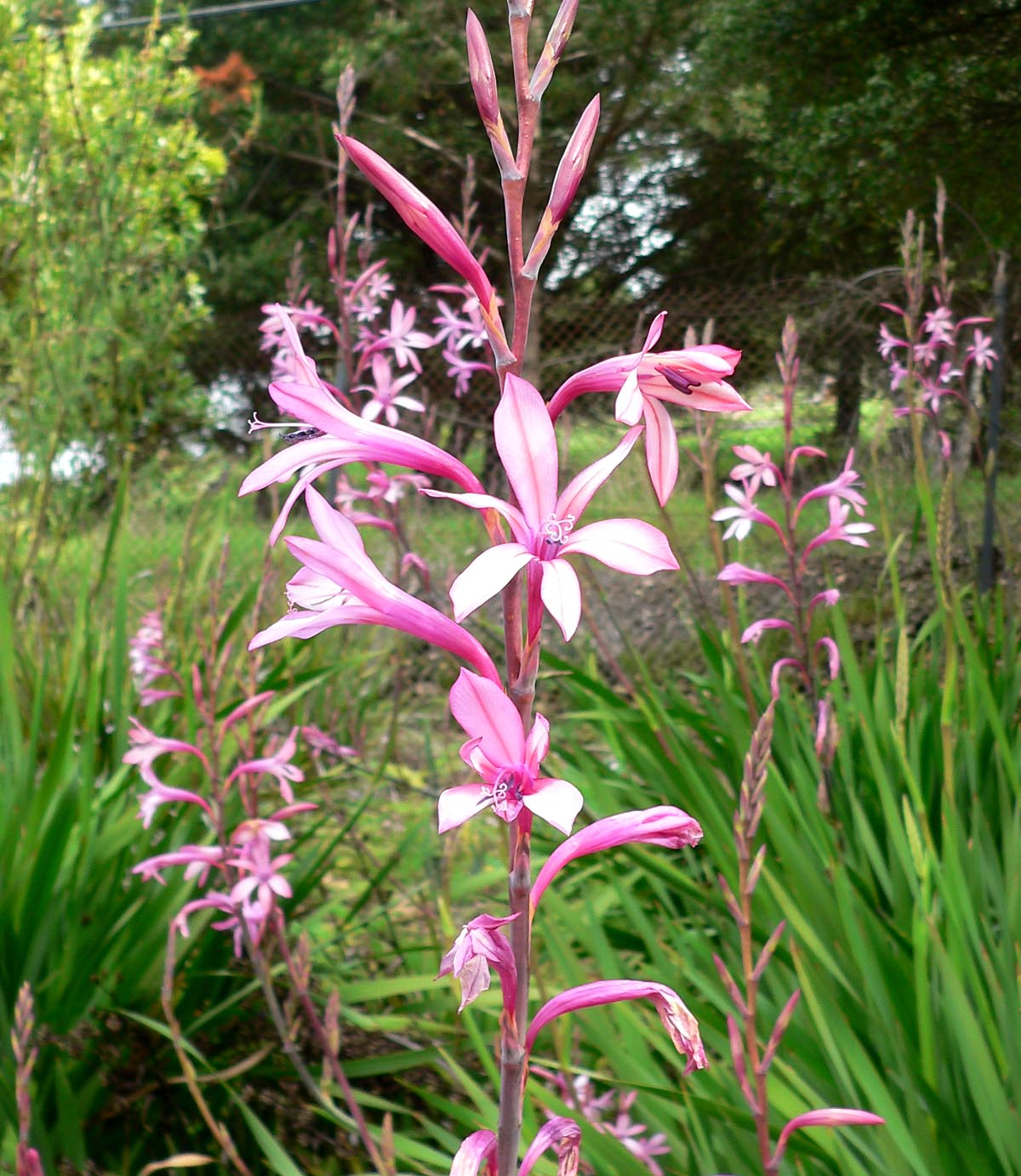 Photo of Watsonia pyramidata at the University of California Botanical Garden